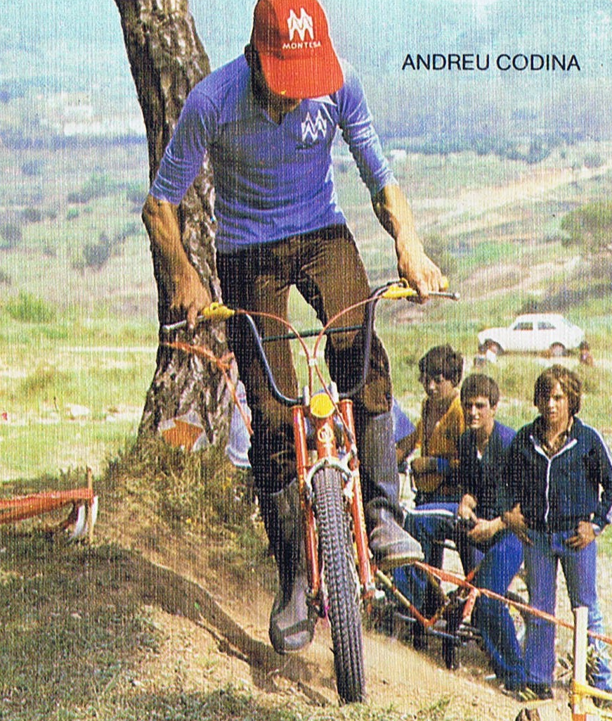 Andreu Codina on a Montesita T-15 (1981)